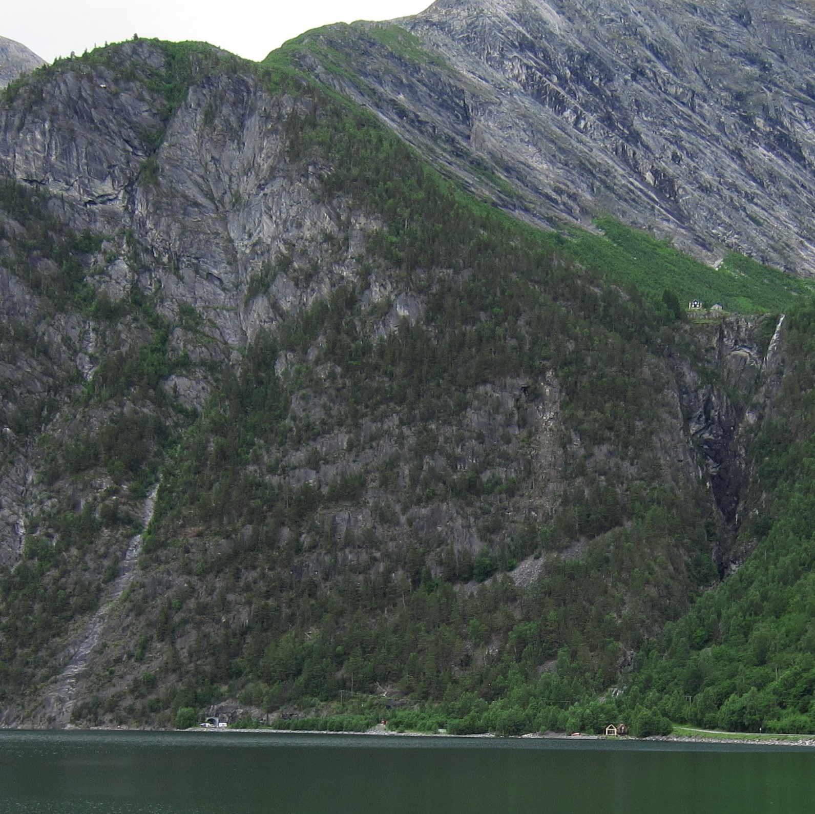 Heggur tunnel on county road 92 in Møre og Romsdalen, Tafjorden, Norddal.